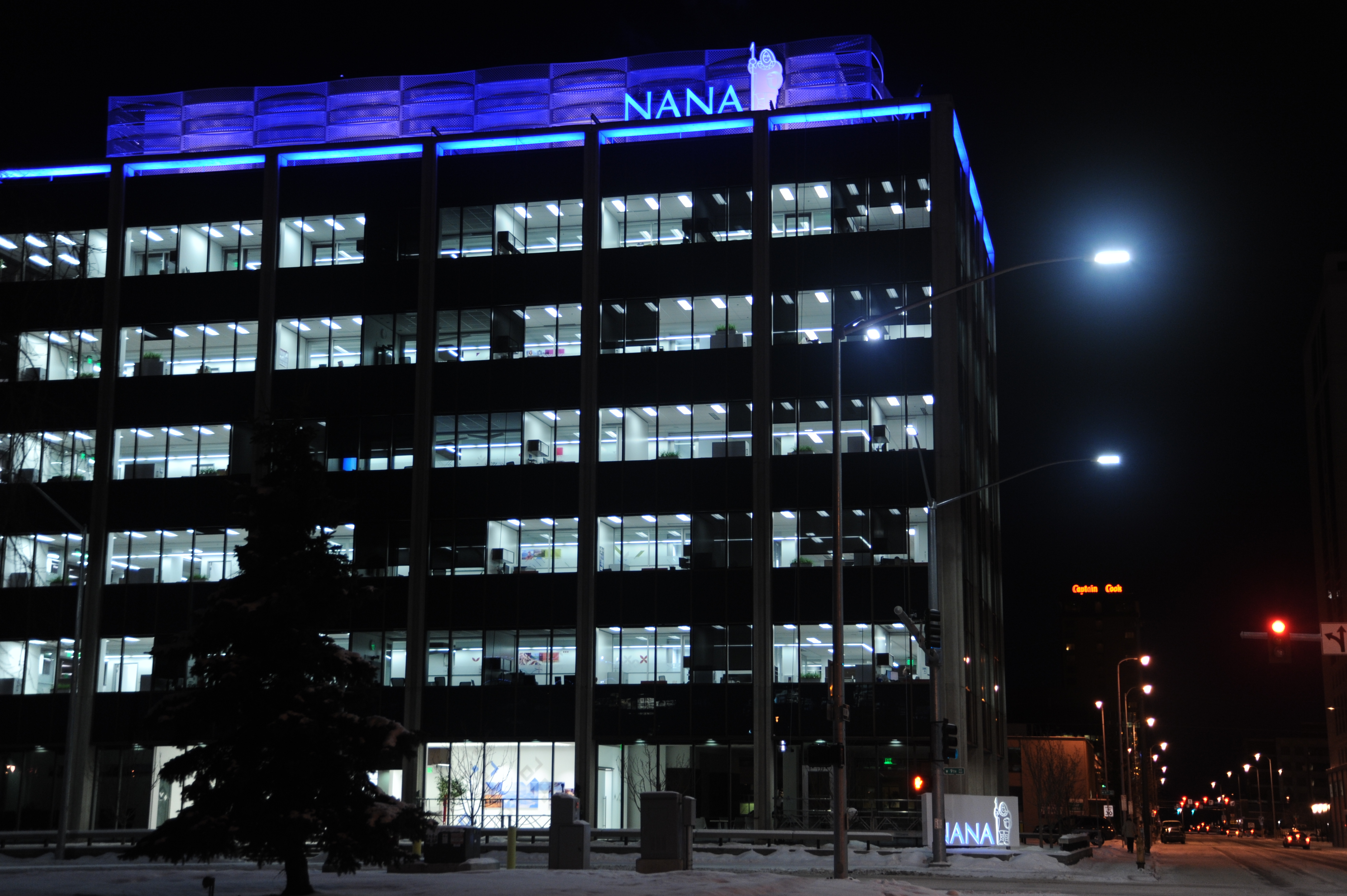 Nighttime view of the new NANA headquarters. NANA is the Native Corporation serving Northwest Alaska. NANA Development has taken over and renovated the former Unocal/Chevron building at 909 W 9th Ave, Anchorage (9th & I), originally built in 1969. See Alaska Journal of Commerce story